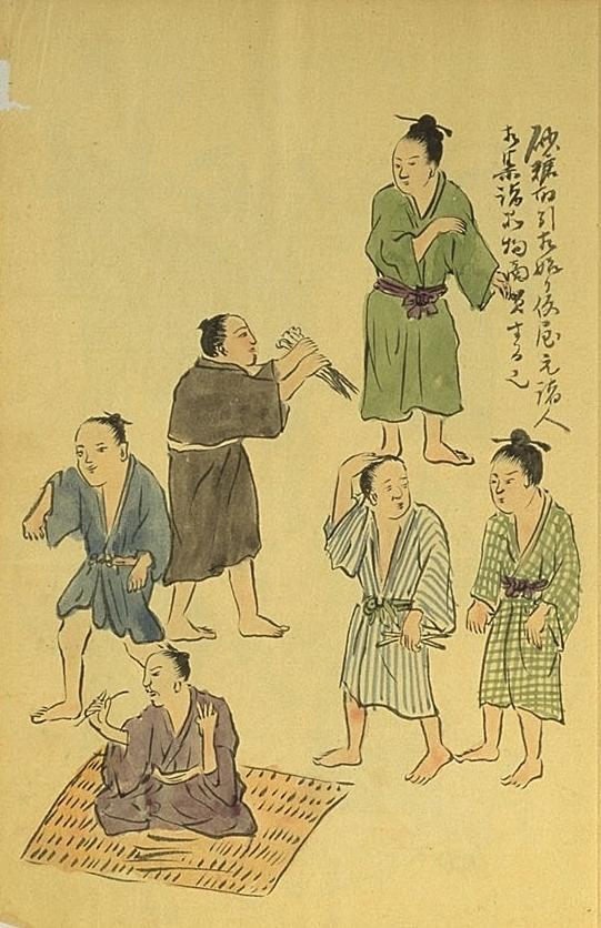 Traditional clothes of Ryukyu